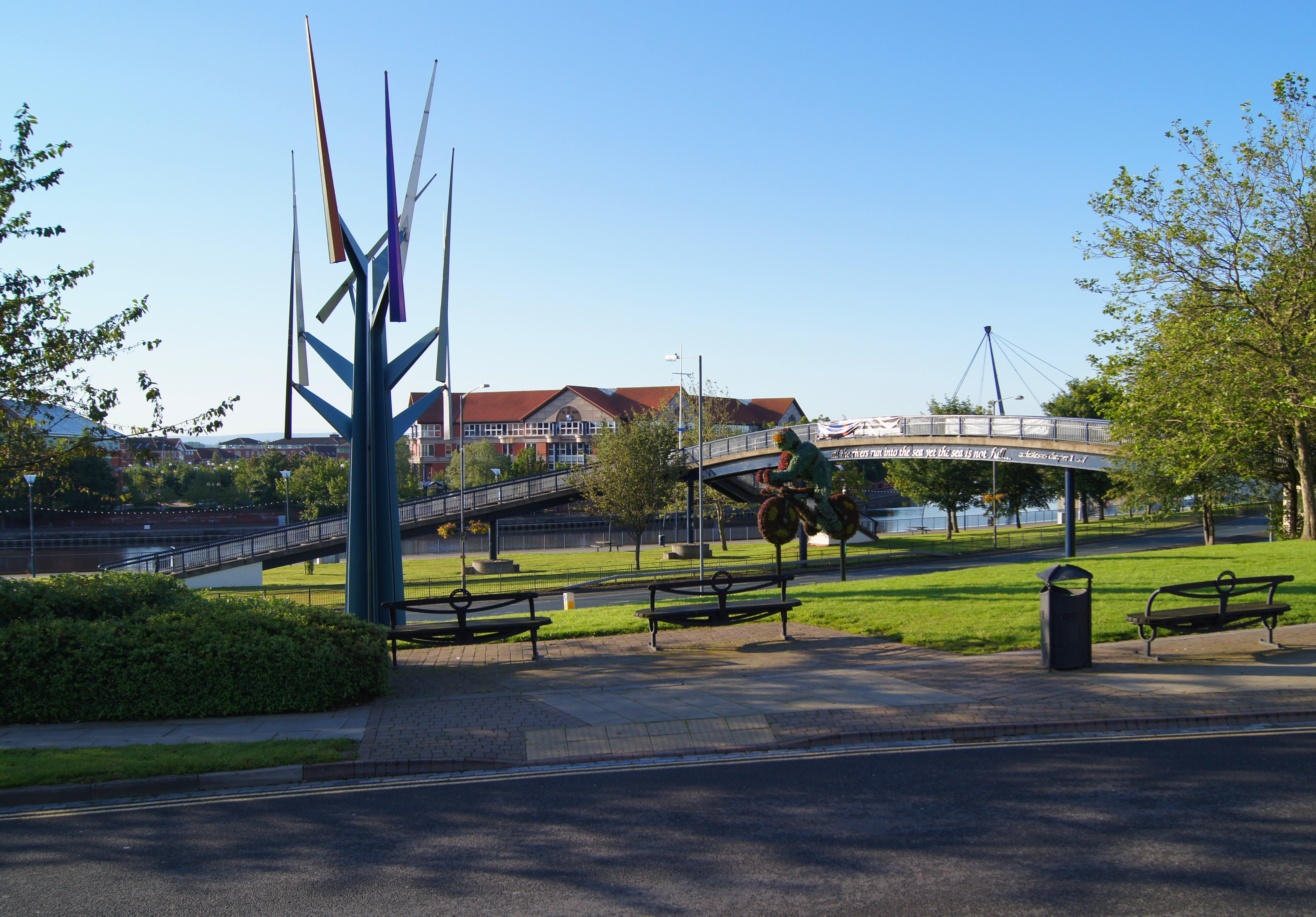 View of the River Tees from Thistle Green, Stockton on Tees. The Aeolian Motion wind sculpture is visible in the foreground, with Dunedin House in the background.